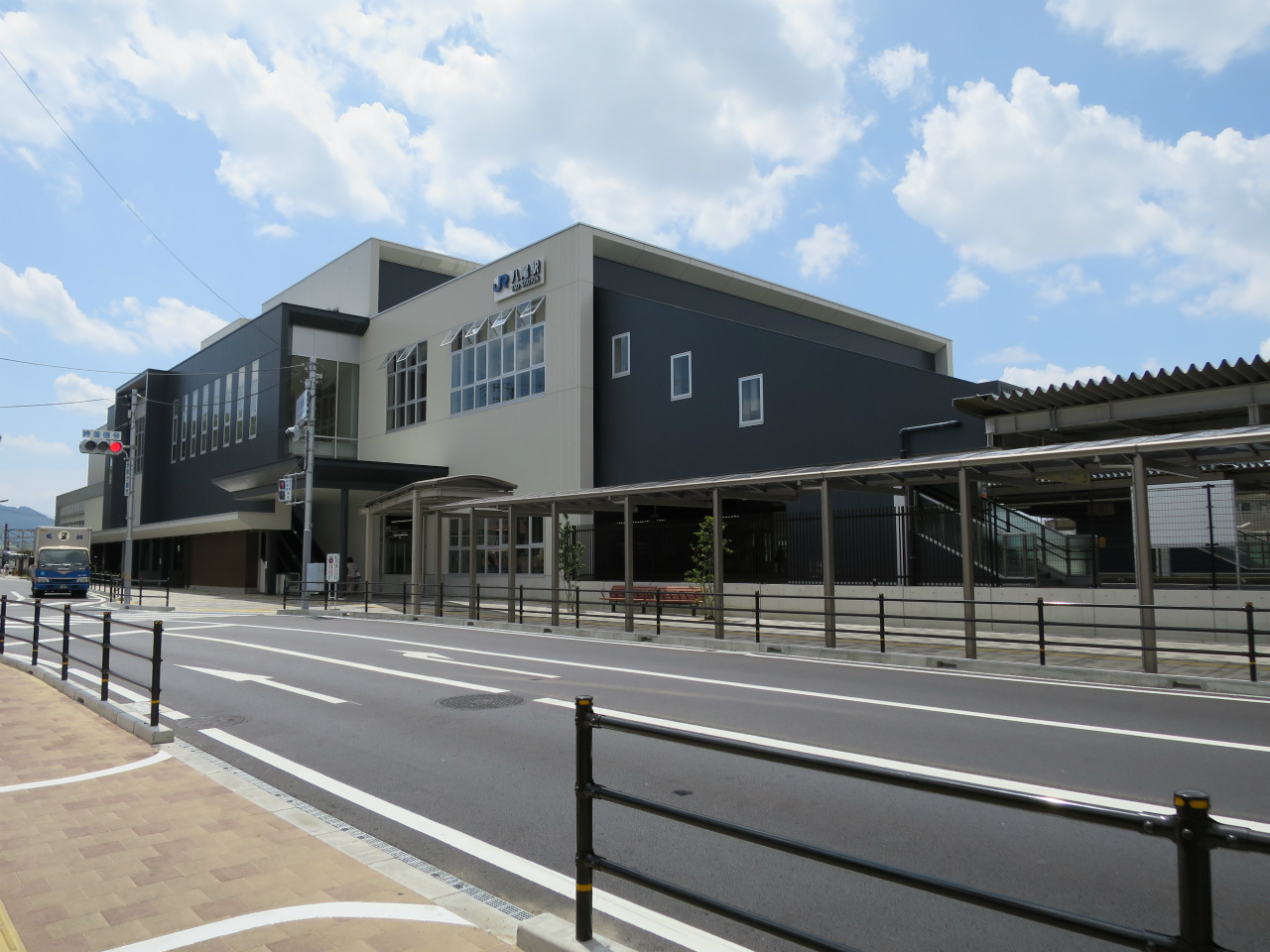 JR Yao station north gate